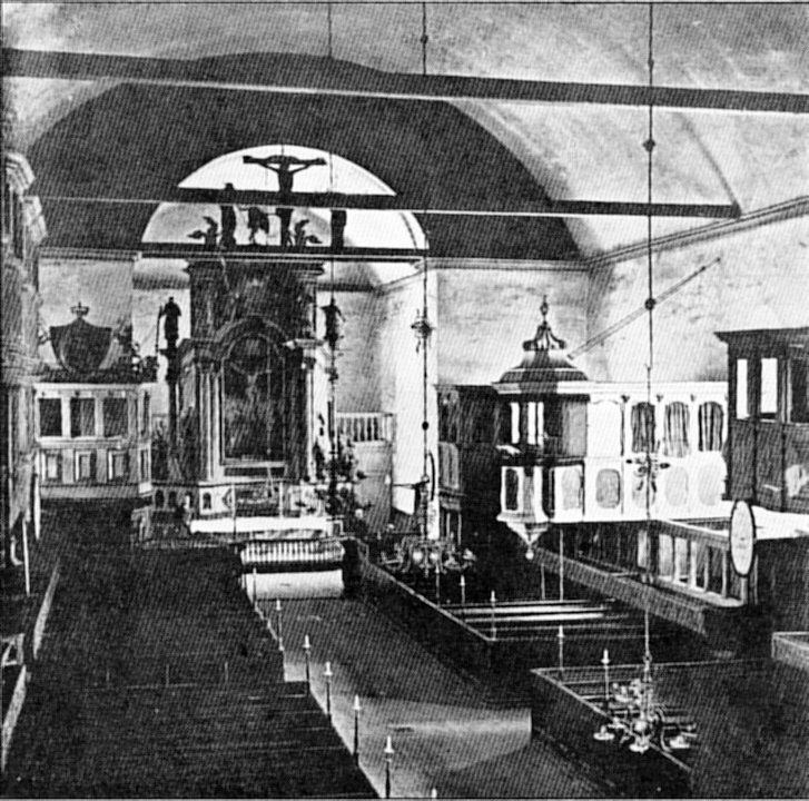 Interior view of eastern parts of Our Lady's Church, Trondheim, Norway, before